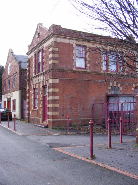 Trolley Bus House The building of the Wolverhampton District Electric Tramways Ltd,ectricity built in 1902 to supply electricity for the local trolley buses. The building on Mount Pleasant is now used as a house since the trolley buses finished in 1965.